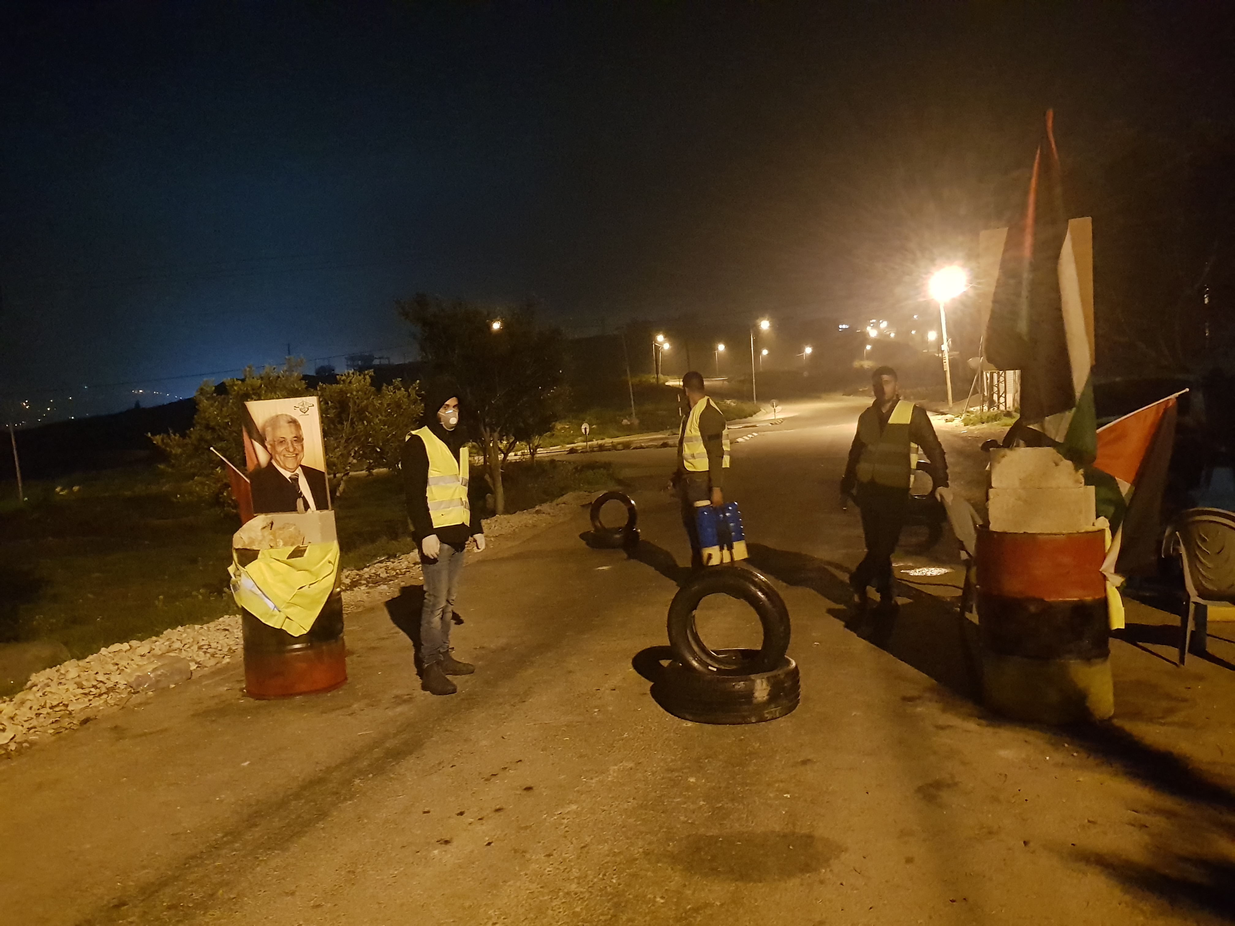 A checkpoint for the local Qusin Emergency Committee at the southern entrance to the village, in implementation of the Palestinian government's decision to impose mandatory quarantine as a result of the Corona virus pandemic in Palestine